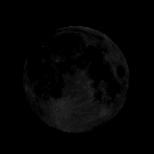 Moon phase